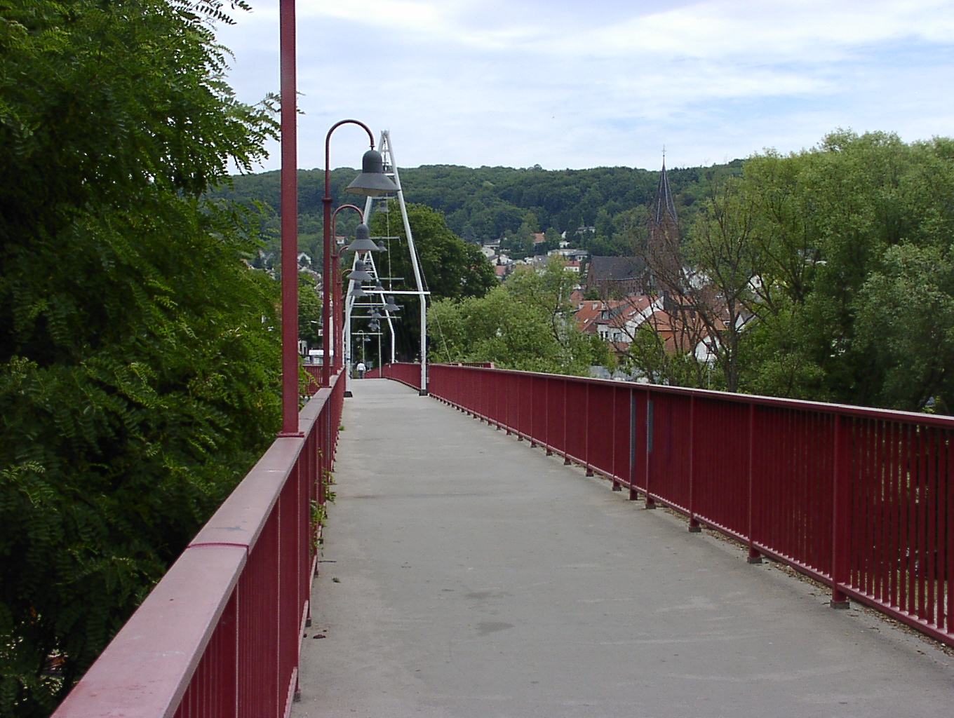 German-French friendship bridge between Kleinblittersdorf (Saarland, Germany) and Grosbliederstroff (Lorraine, France)